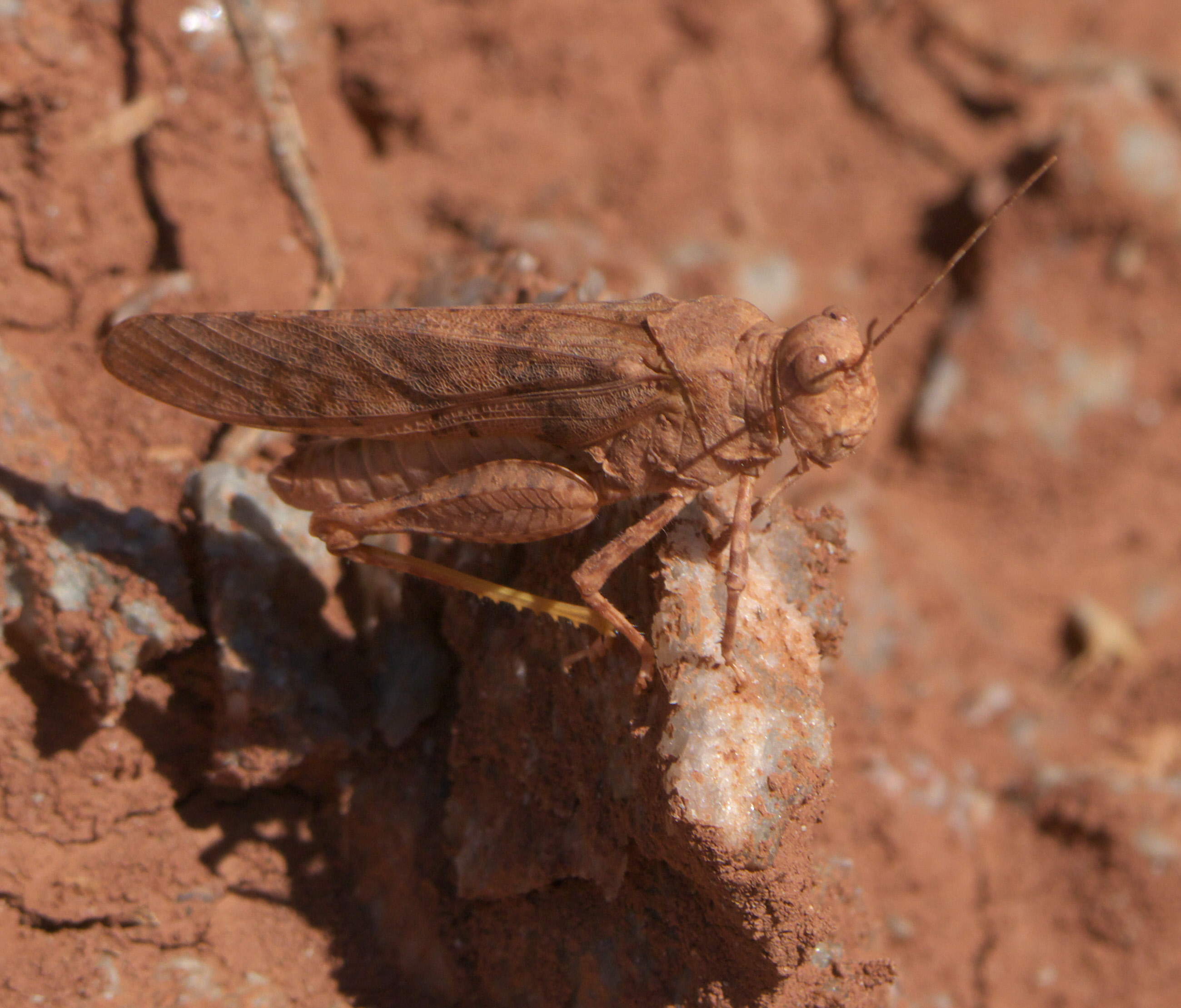 Circotettix rabula, Wrangler Grasshopper, ID Confidence: 98